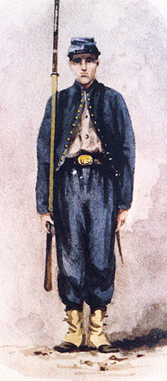 95th Regt, P[ennsylvania] V[olunteers], Goslin[e]'s Zouaves, by Xanthus Smith, 1861